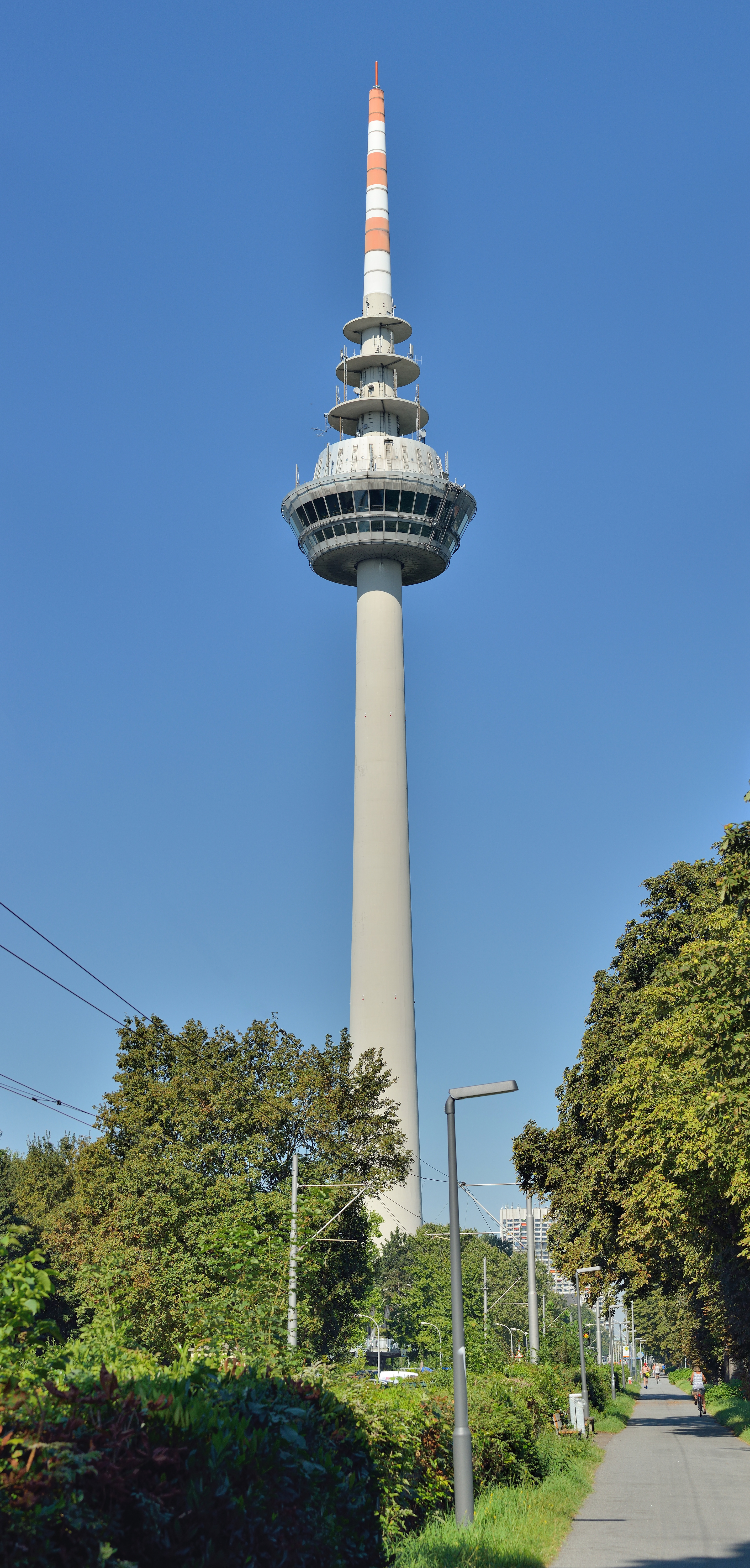 Mannheim: TV Tower